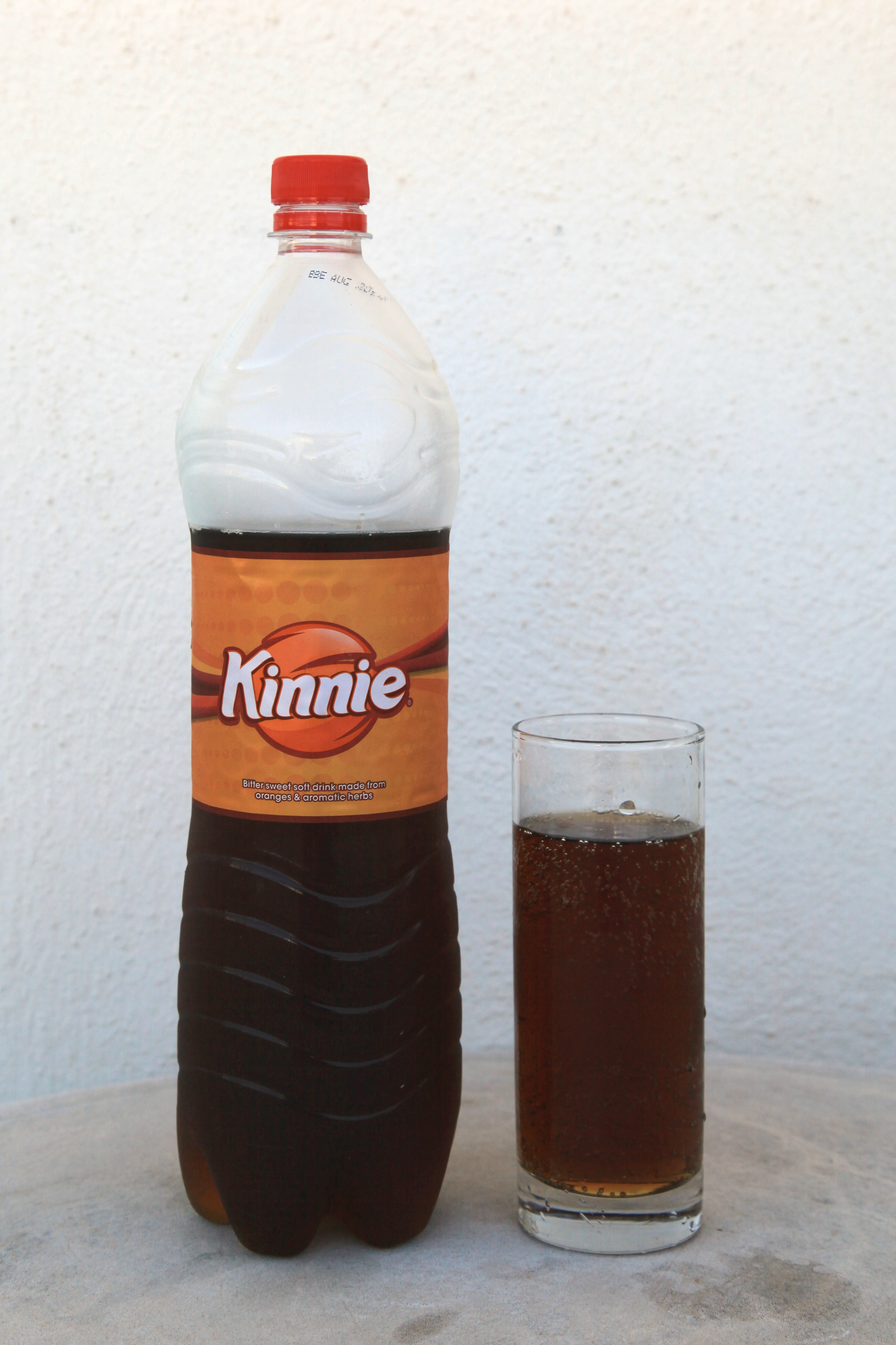 Refreshing Kinnie in St. Paul's Bay, Malta